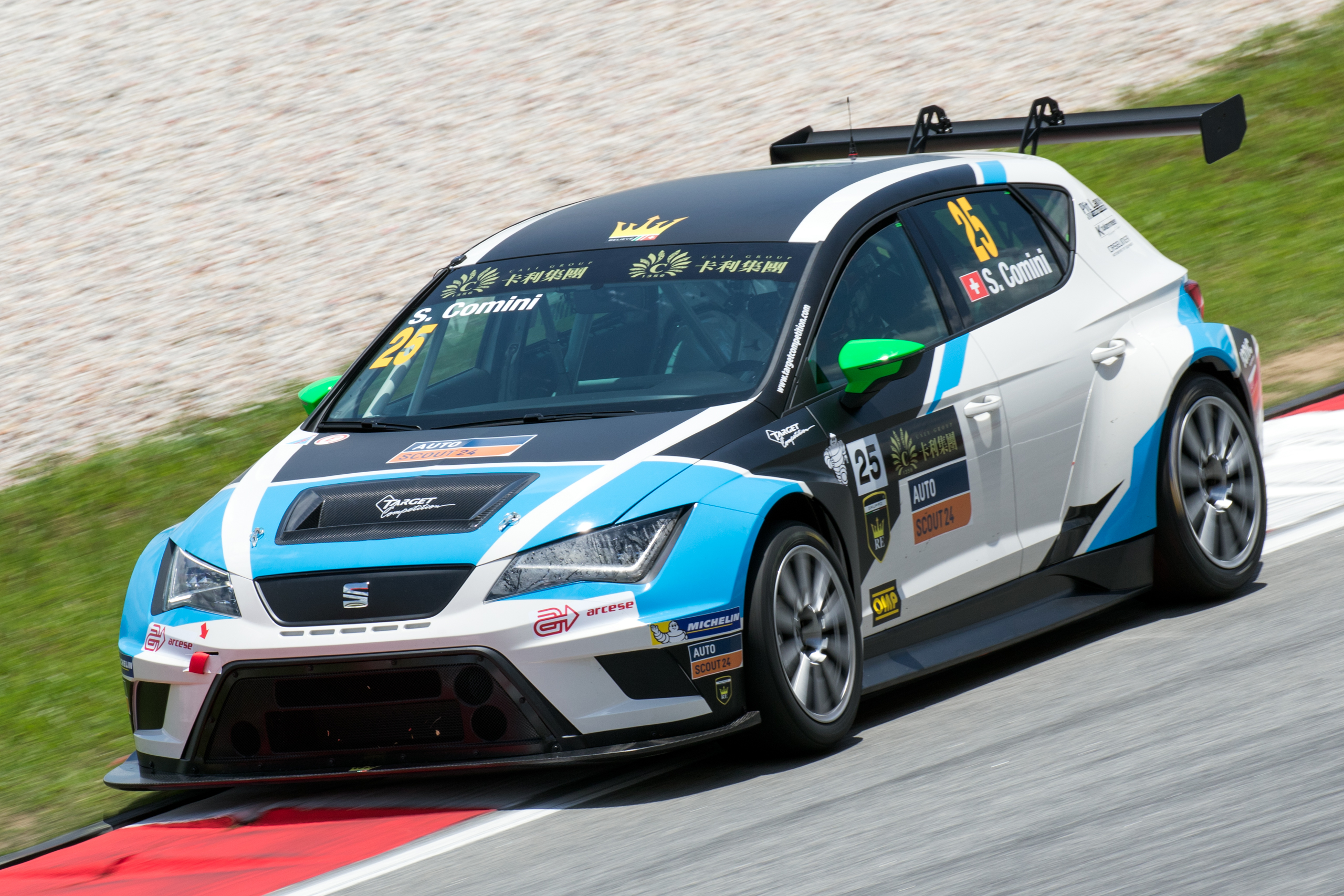 TCR International Series 2015 Rd.1 Malaysia: Stefano Comini (Zengő Motorsport)